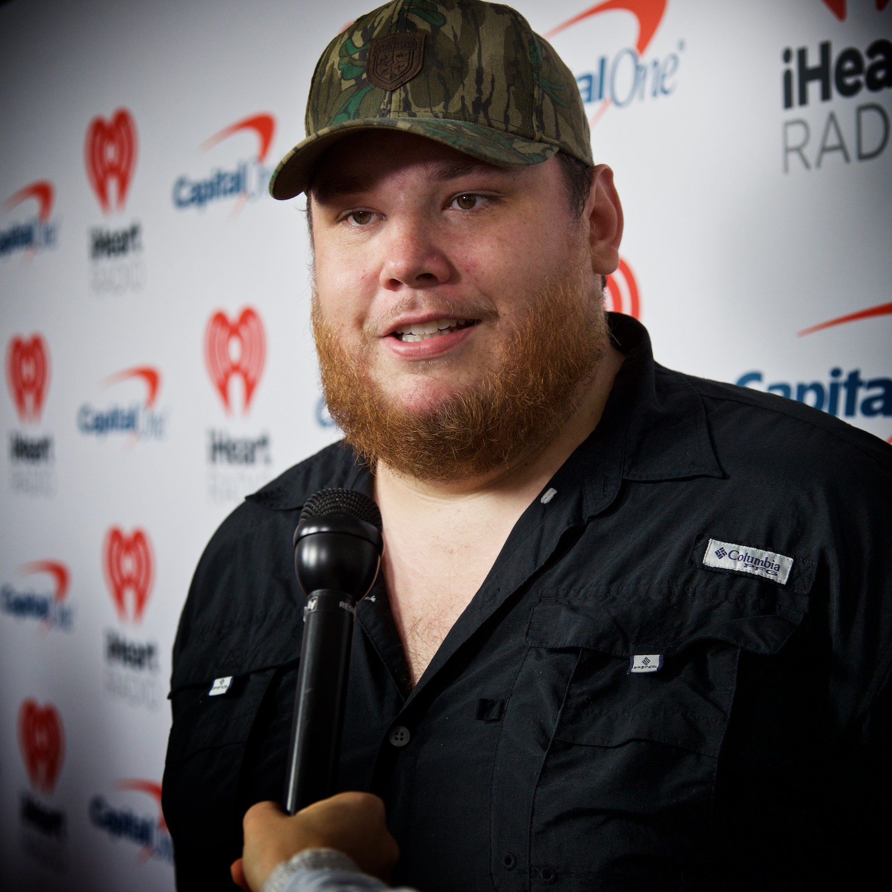 Luke Combs is interviewed during the iHeart Country Festival in Austin, TX on May 4, 2019.